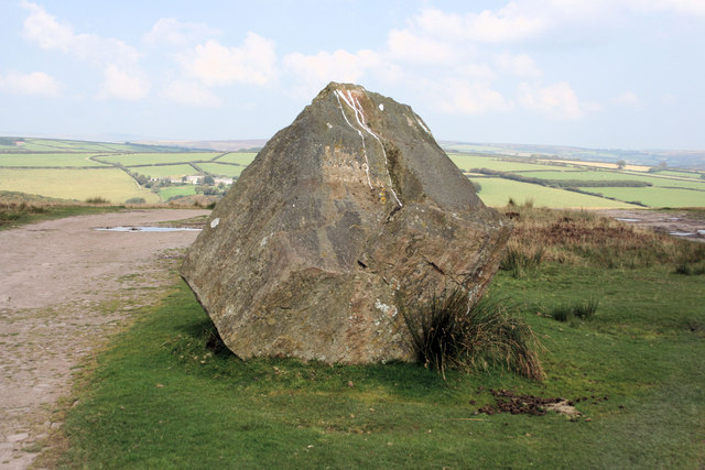 Froude Hancock Memorial This boulder is a memorial to Froude Hancock a local celebrity and England Rugby player.